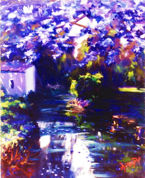 Picture of an impresionist oil painting where we appreciate a landscape painted in purple colors. We see a white cabin, a crystalline stream running en the middle. The ensemble is covered by the purple foliage of a mexican tree, "jacarandá".